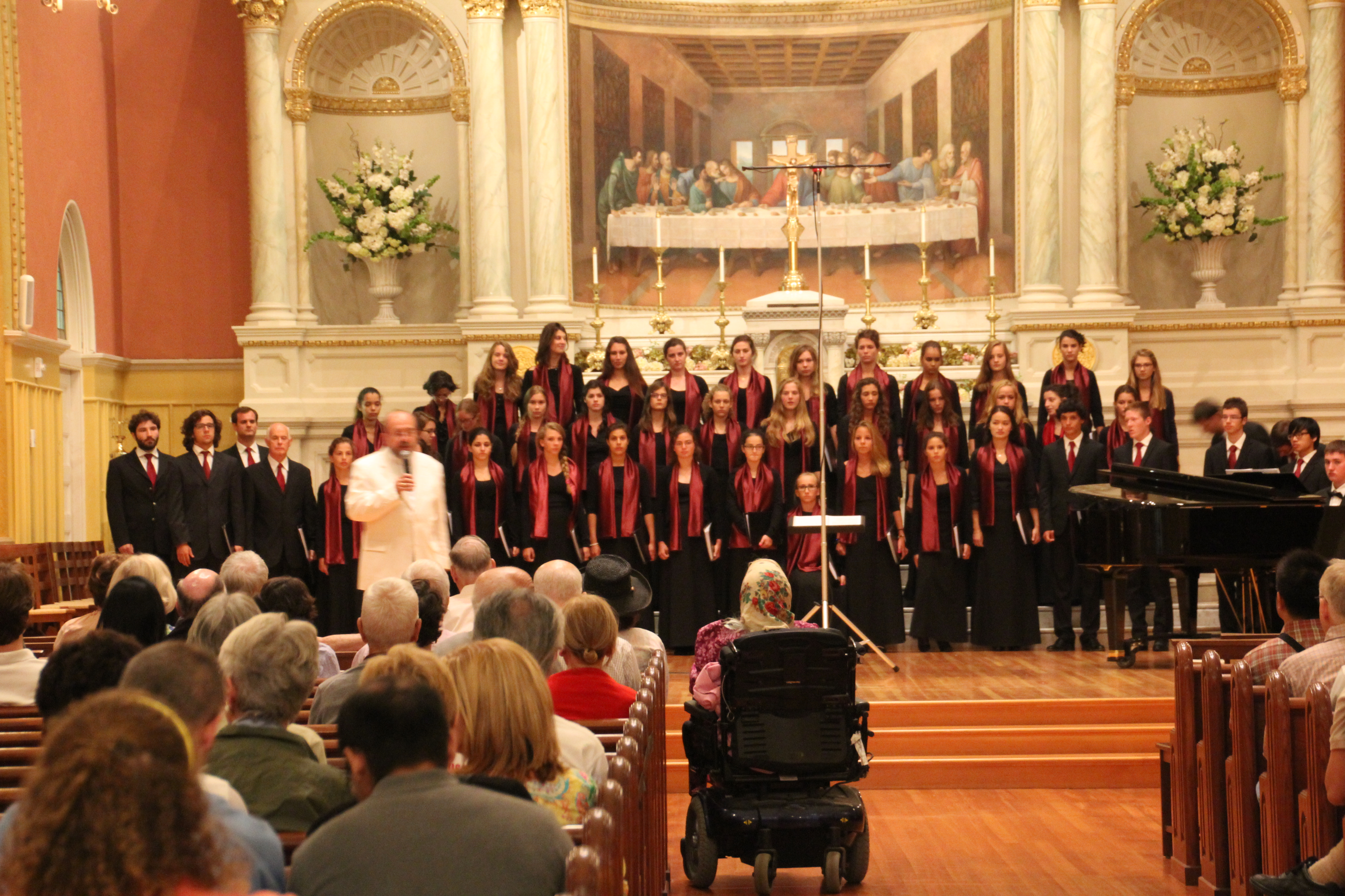 The JCIDF in Boston in 2012